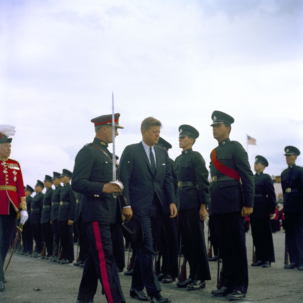 President of the United States John Fitzgerald Kennedy inspects an honour guard of the Bermuda Rifles at Kindley Air Force Base on his arrival in the British Colony of Bermuda on the 21st of December, 1961, to attend meetings with the Prime Minister of the United Kingdom, Harold Macmillan. Escorting the President is the Governor and Commander-in-Chief of Bermuda, Major-General Sir Julian Alvery Gascoigne, and an officer of the Bermuda Militia Artillery.